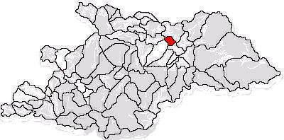 Map of Petrova commune in Maramureş County Romania